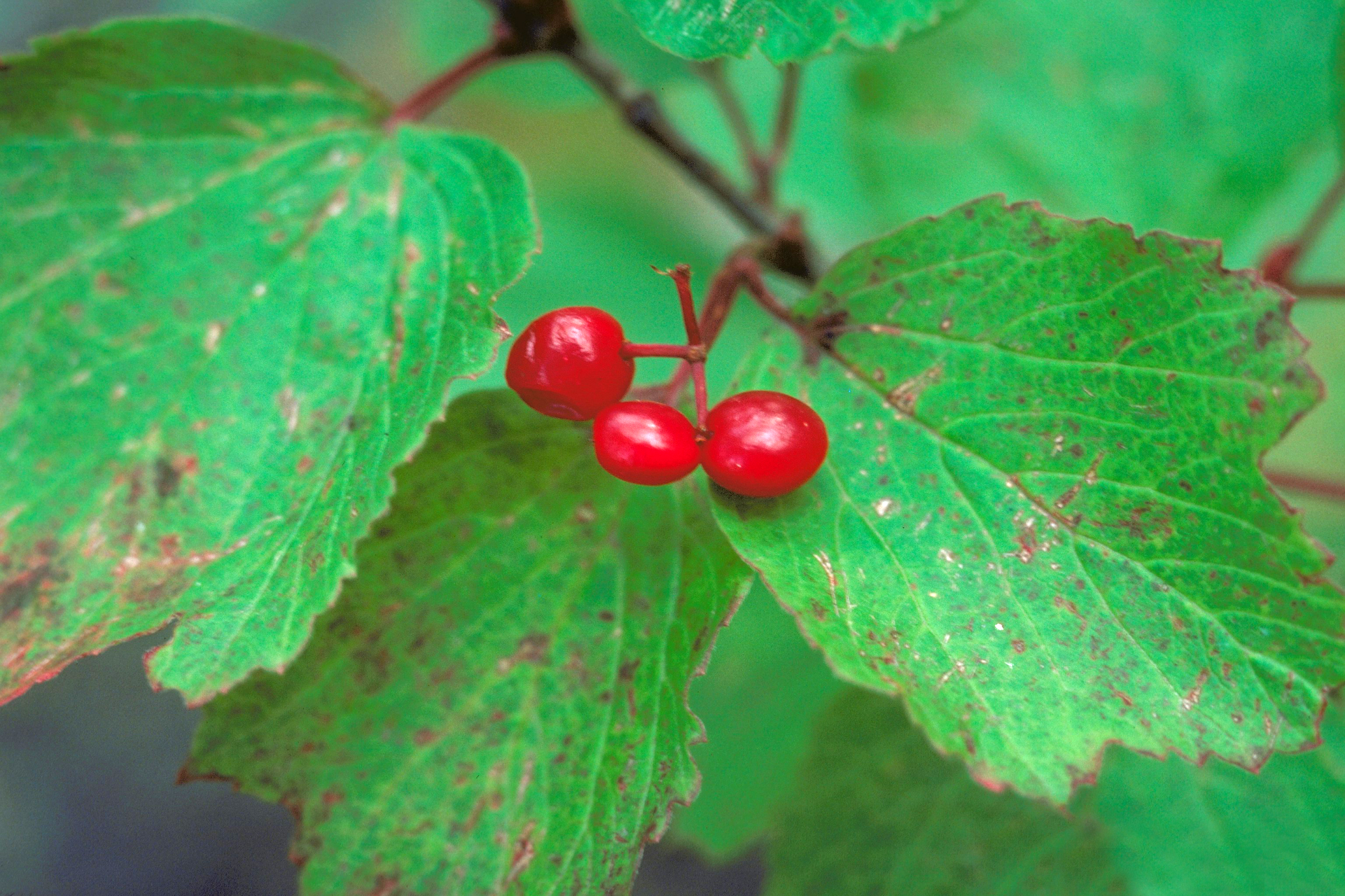 Viburnum edule (Michx.) Raf. - squashberry - fruit